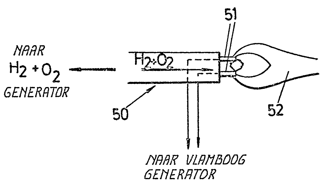 This is an image of a stoichiometric proportion of hydrogen and oxygen being passed through an torch equipped with an electric arc.